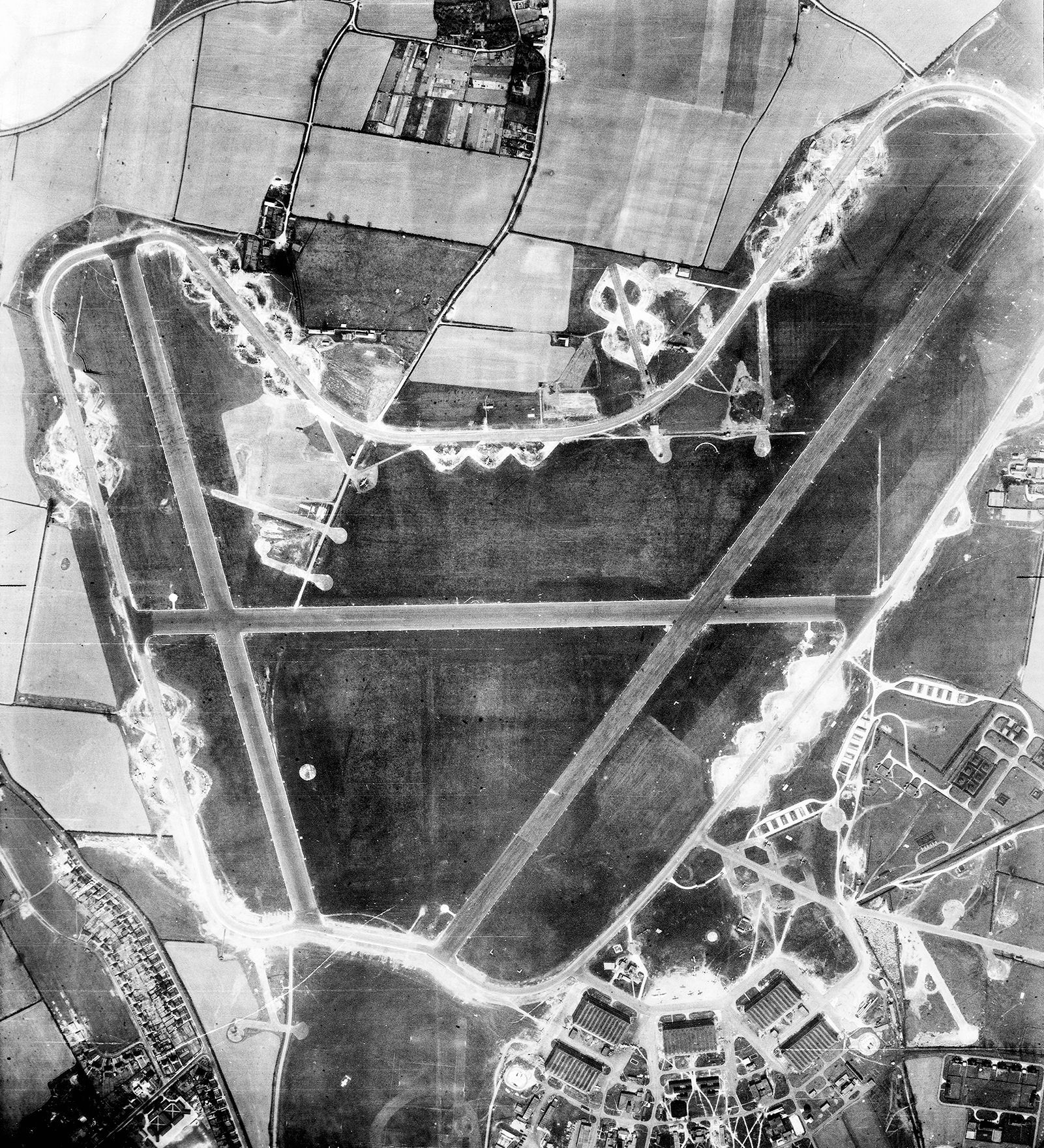 Aerial photograph of RAF Horsham St Faith airfield, 16 April 1946, taken by No. 541 Squadron, sortie number RAF/106G/UK/1428. English Heritage (RAF Photography).